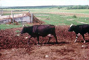 The only available photograph of the Siboney de Cuba breed of cattle.